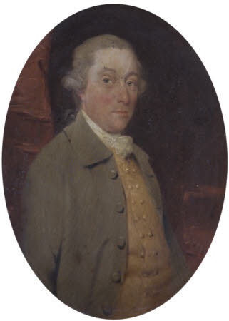 Montagu Edmund Parker (1737-1831) of Whiteway House, Chudleigh, Devon, Sheriff of Devon in 1789, younger brother of John Parker, 1st Baron Boringdon (1735-1788) of Saltram House, Plympton, Devon, whose son was John Parker, 1st Earl of Morley (1772-1840). Oval miniature portrait oil painting on copper dated 1780 (212mm x 181mm (8 1/2 x 7 1/4 in)) by John Downman (1750-1824), RA, signed and dated: J. Downman pinxit 1780. Half length to right, in pale green coat, yellow waistcoat and white stock. Provenance: Accepted by HM Treasury in part payment of death-duties from the executors of Edmund Robert Parker, 4th Earl of Morley (1877-1951) and transferred to the National Trust in 1957. Collection of National Trust, ref: NT 872210, displayed at Saltram House.